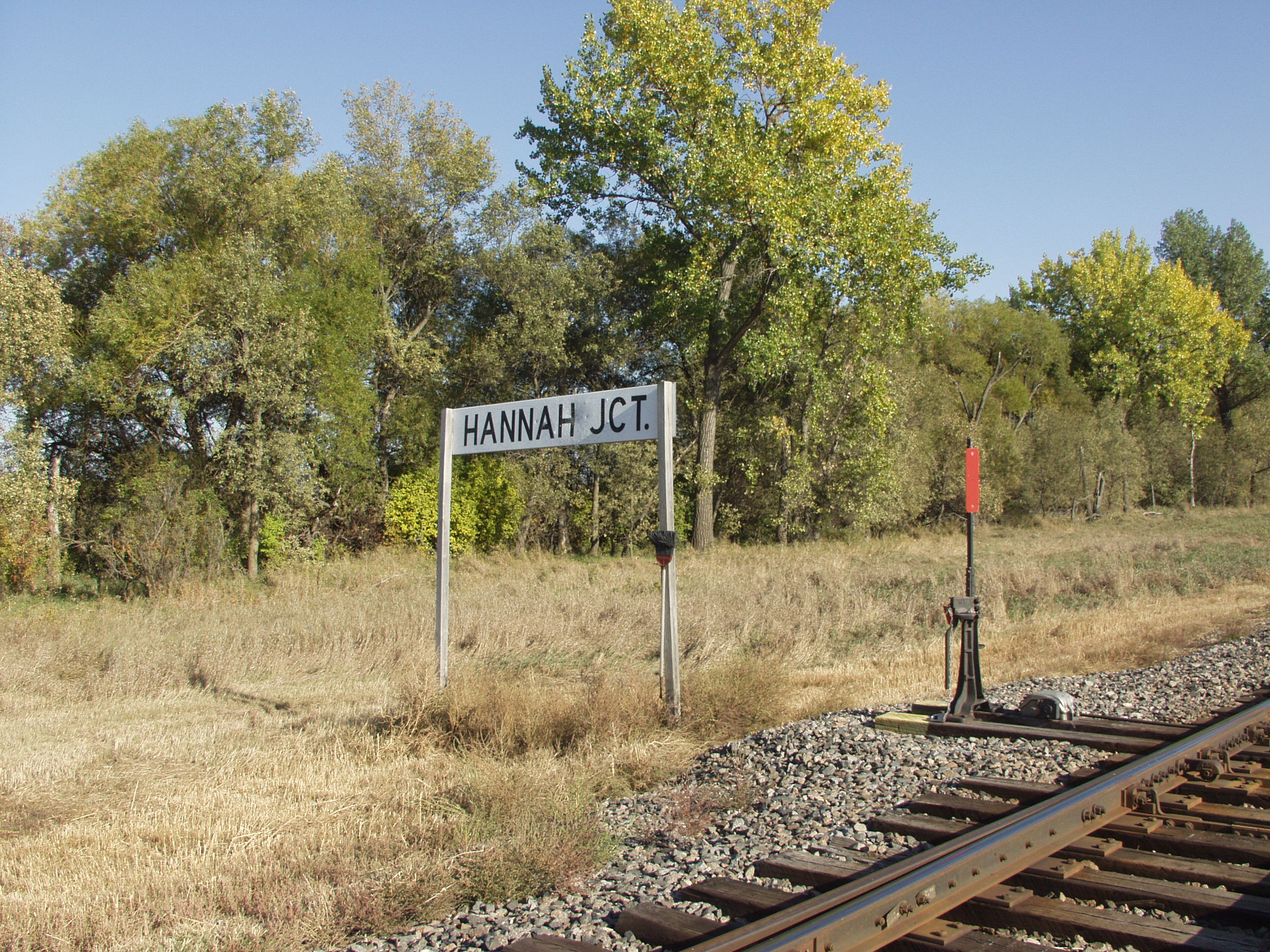 Sign for Hannah Junction, North Dakota along a railroad. From .